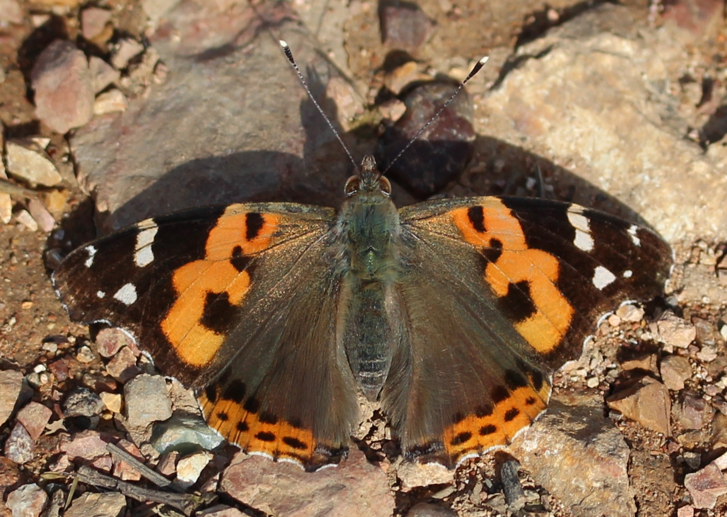 Vanessa indica in Mount Hatobuki, Japan